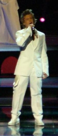 Jonatan Cerrada during a rehearsal at the Eurovision Song Contest 2004 in Istanbul